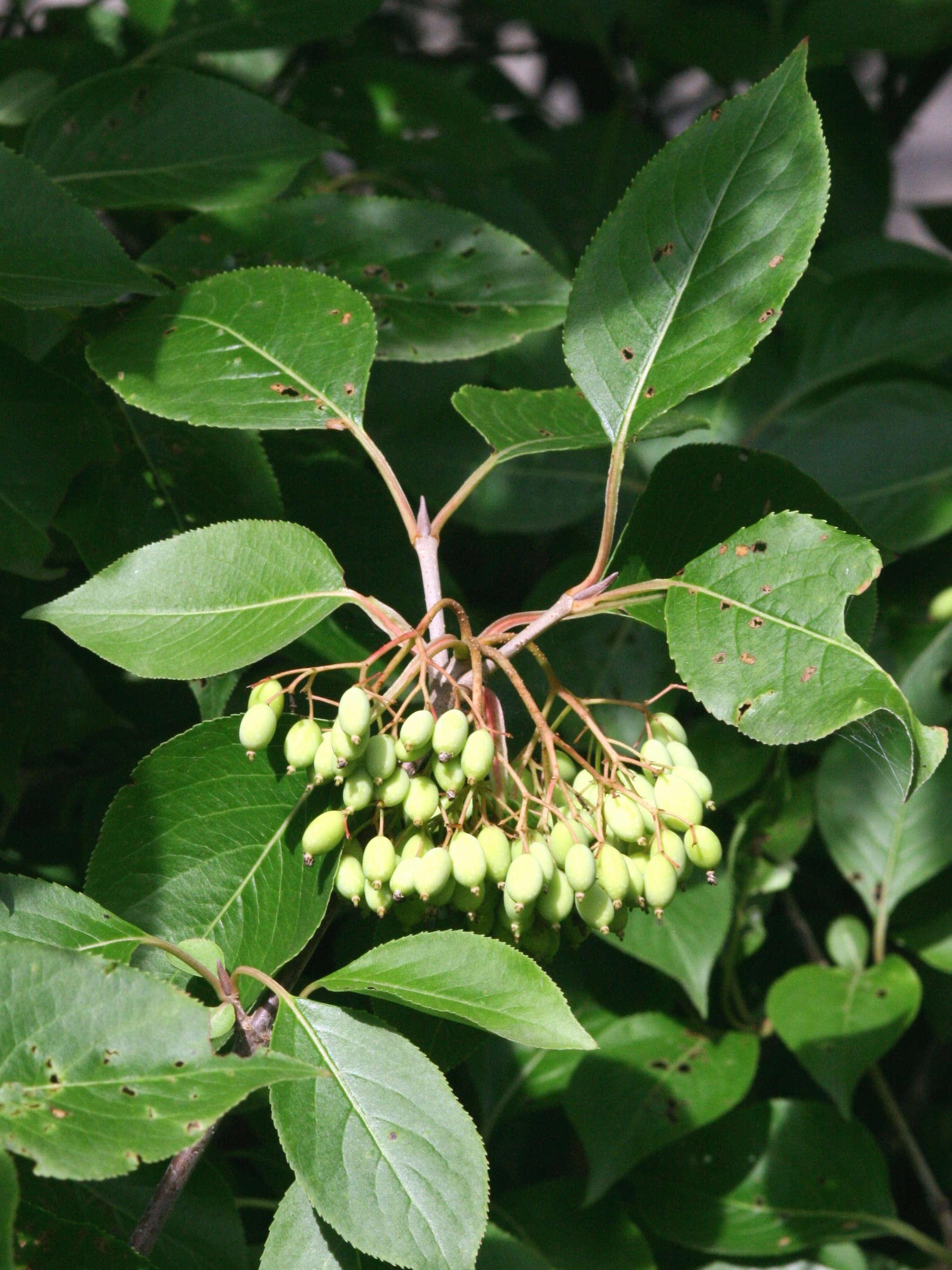 Viburnum prunifolium, Dendrological Garden Pruhonice, Czech Republic